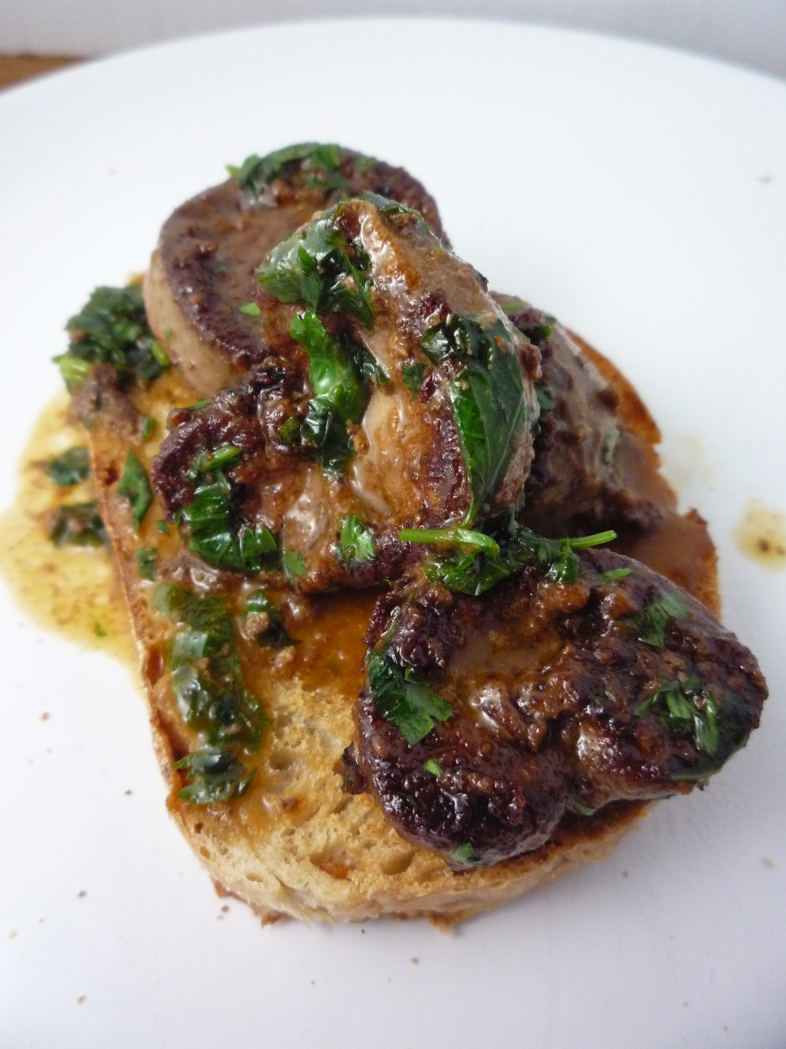 this recipe and more on my blog Girl Interrupted Eating